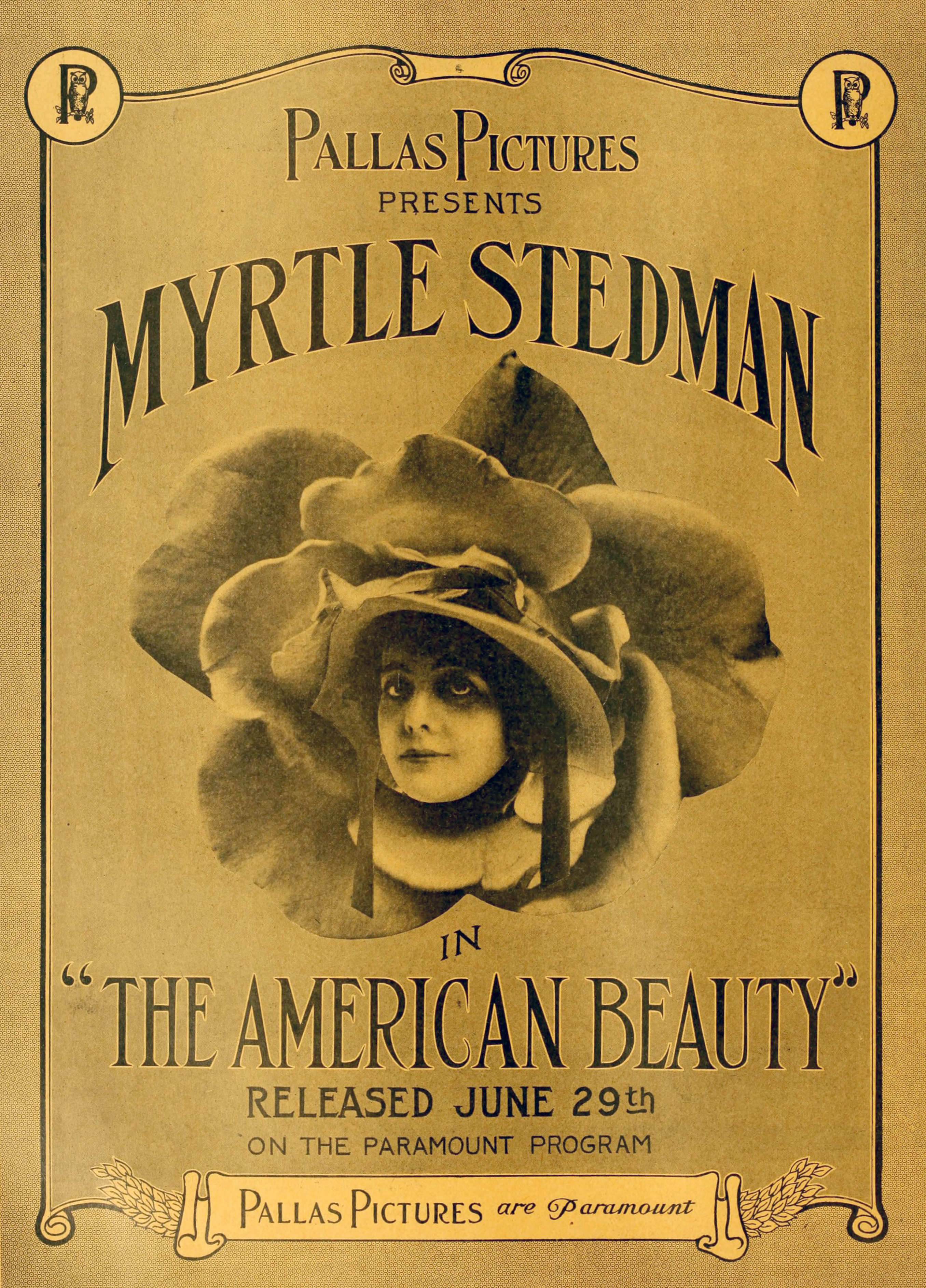 Advertisement in the Moving Picture World for the American film The American Beauty (1916) with Myrtle Stedman.